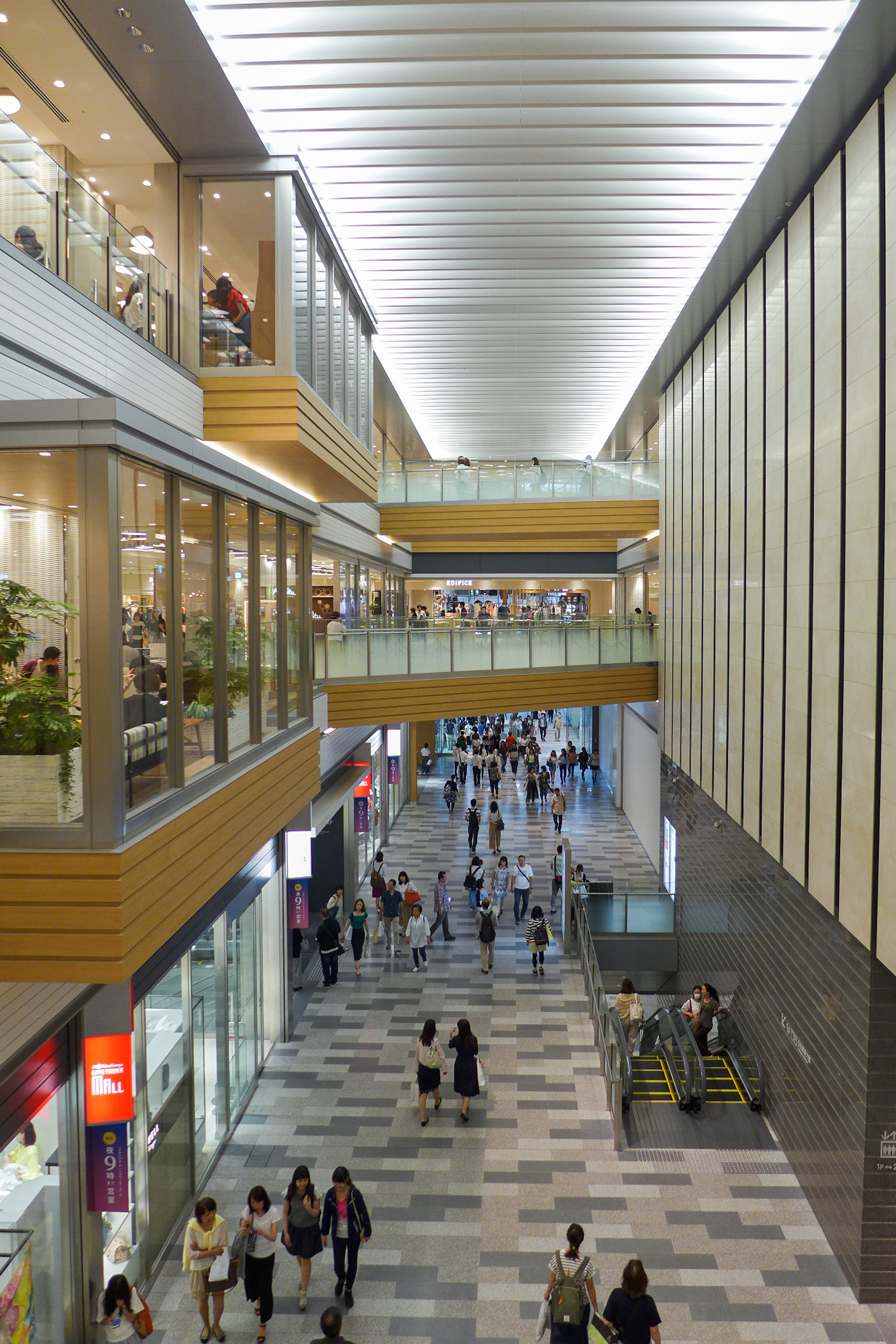 JR Gate Tower Retail Void